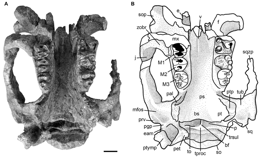 Fig. 3: Cranium of Lentiarenium cristolii (Fitzinger, 1842) (OLL 1926/394) in ventral view. A. Photograph. B. Drawing. White areas indicate either missing or reconstructed parts. Scale bar = 2 cm. bf: bony falx cerebri; bs: basisphenoid; e: ethmoid; eam: external auditory meatus; f: frontal; j: jugal; M1–3: upper molar or alveolus 1–3; mfos: mandibular fossa; mx: maxilla; p: parietal; pal: palatine; pet: petrosal; pgp: postglenoid process; prv: processus retroversus; ps: presphenoid; pt: pterygoid; ptp: pterygoid process; ptymp: posttympanic process; so: supraoccipital; sop: supraorbital process; sq: squamosal; sqzp: zygomatic process of squamosal; to: tentorium osseum; tproc: tentoric process; trsul: transverse sulcus; tub: tuberculum; v: vomer; zobr: zygomatic-orbital bridge